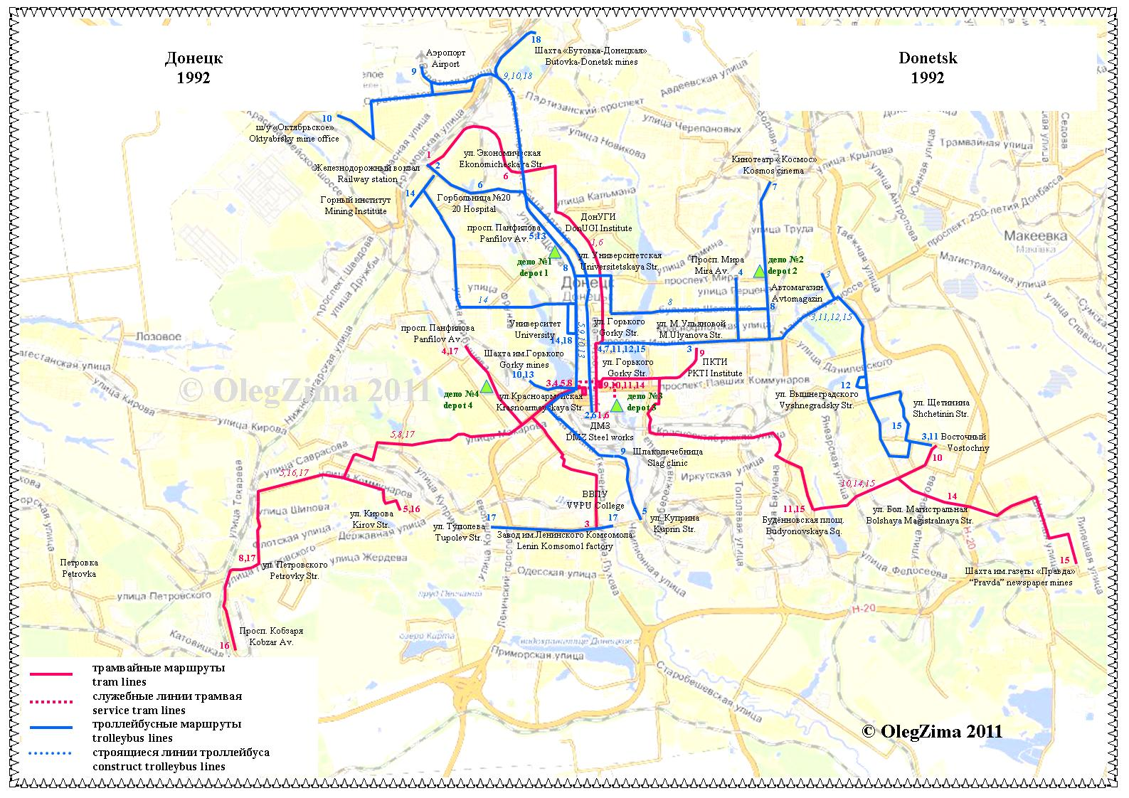 Transport map of Donetsk city at 1992